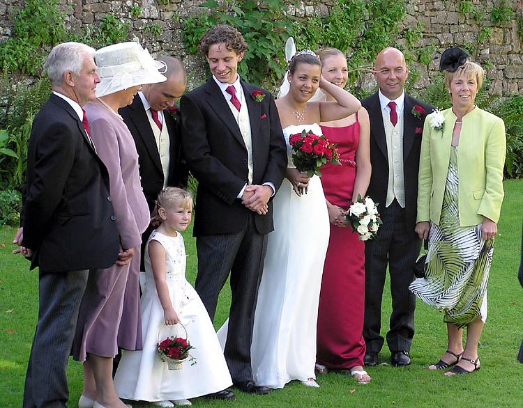 A wedding group preparing for the photos, at Thornbury Castle, Thornbury, near Bristol, England. Taken by Adrian Pingstone in September 2004 and released to the public domain.